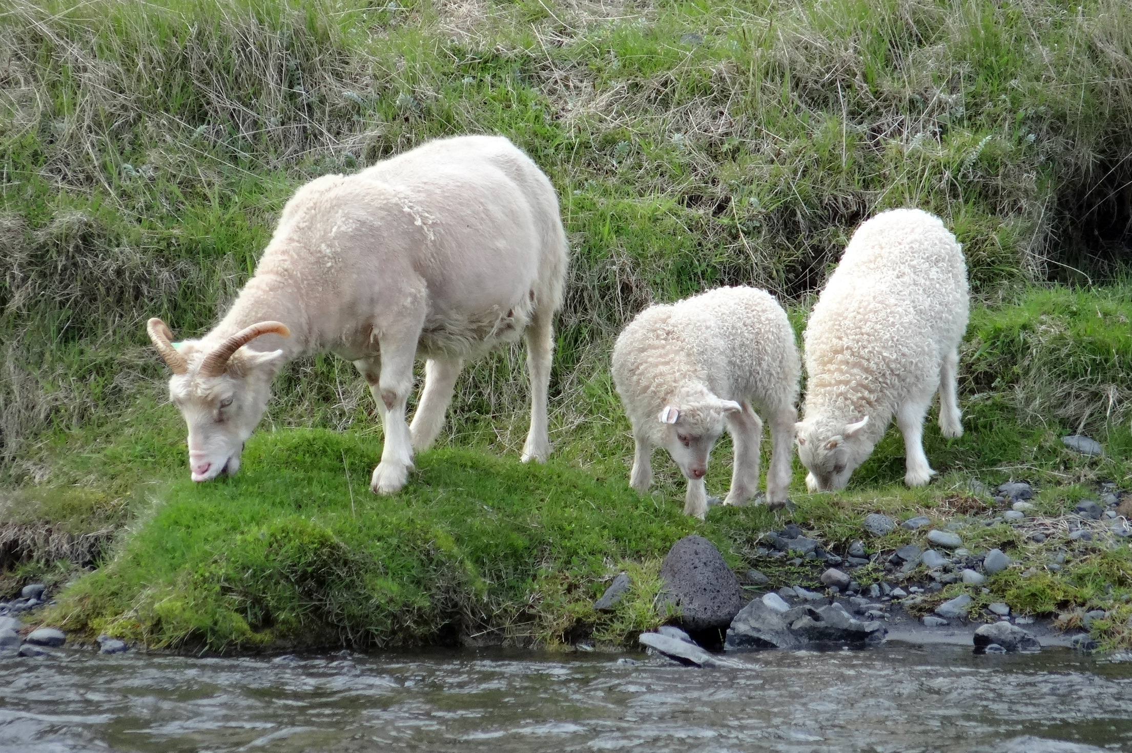 Icelandic sheep